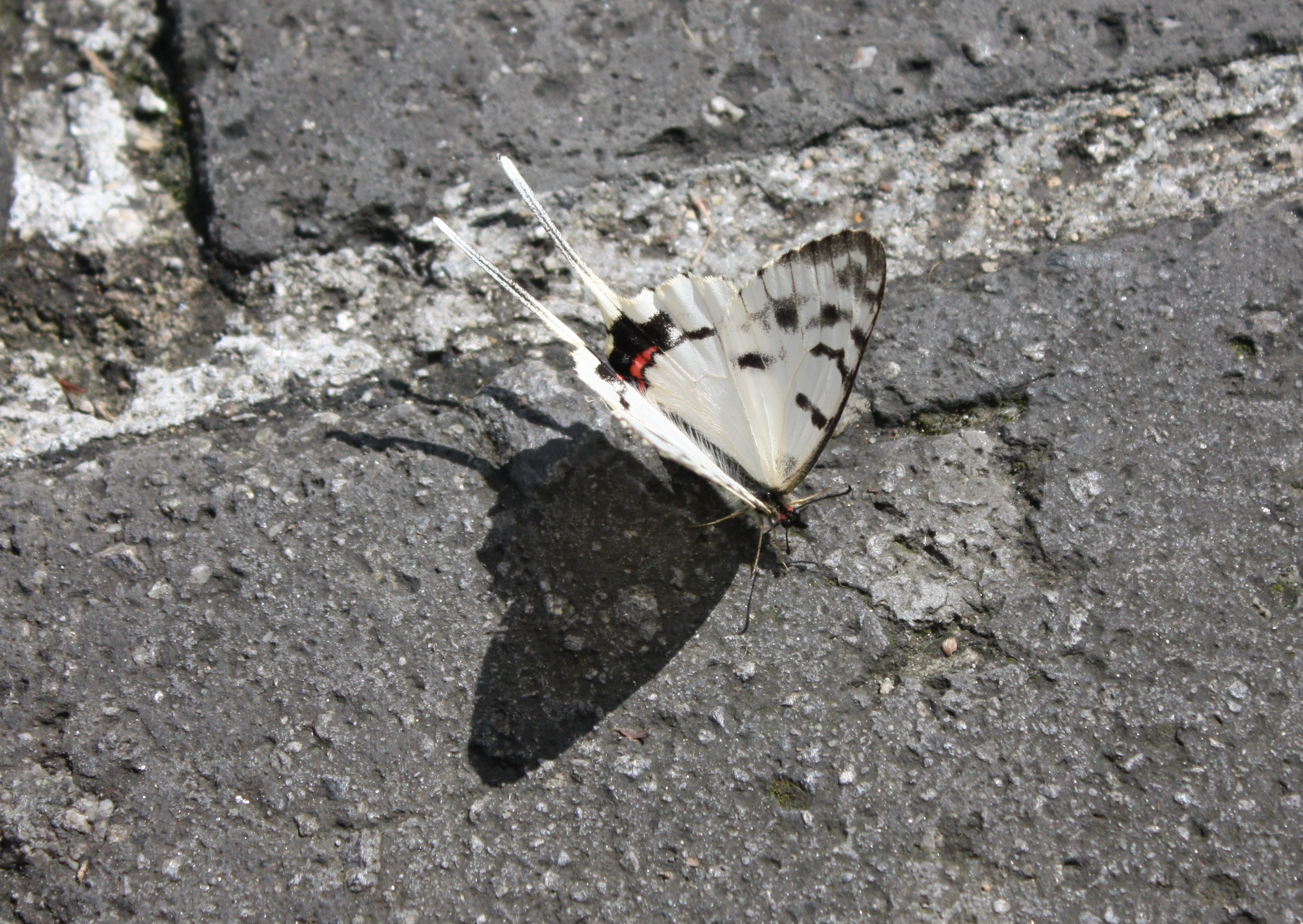 Sericinus montela on Great Wall, near Beijing